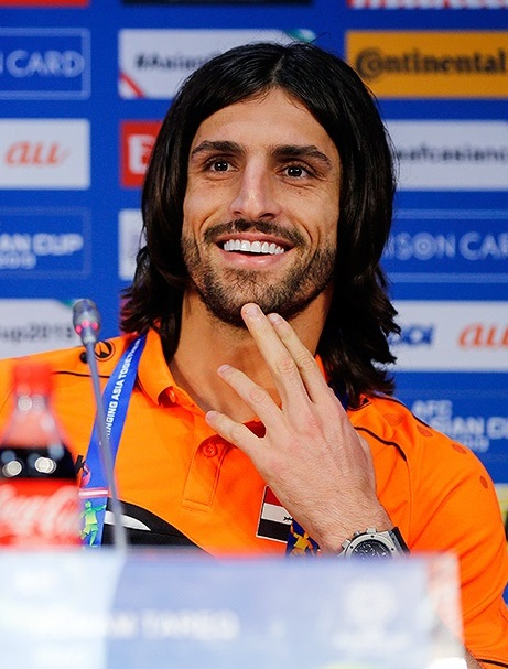 Iran & Iraq Pre-match press conference, 2019 AFC Asian Cup